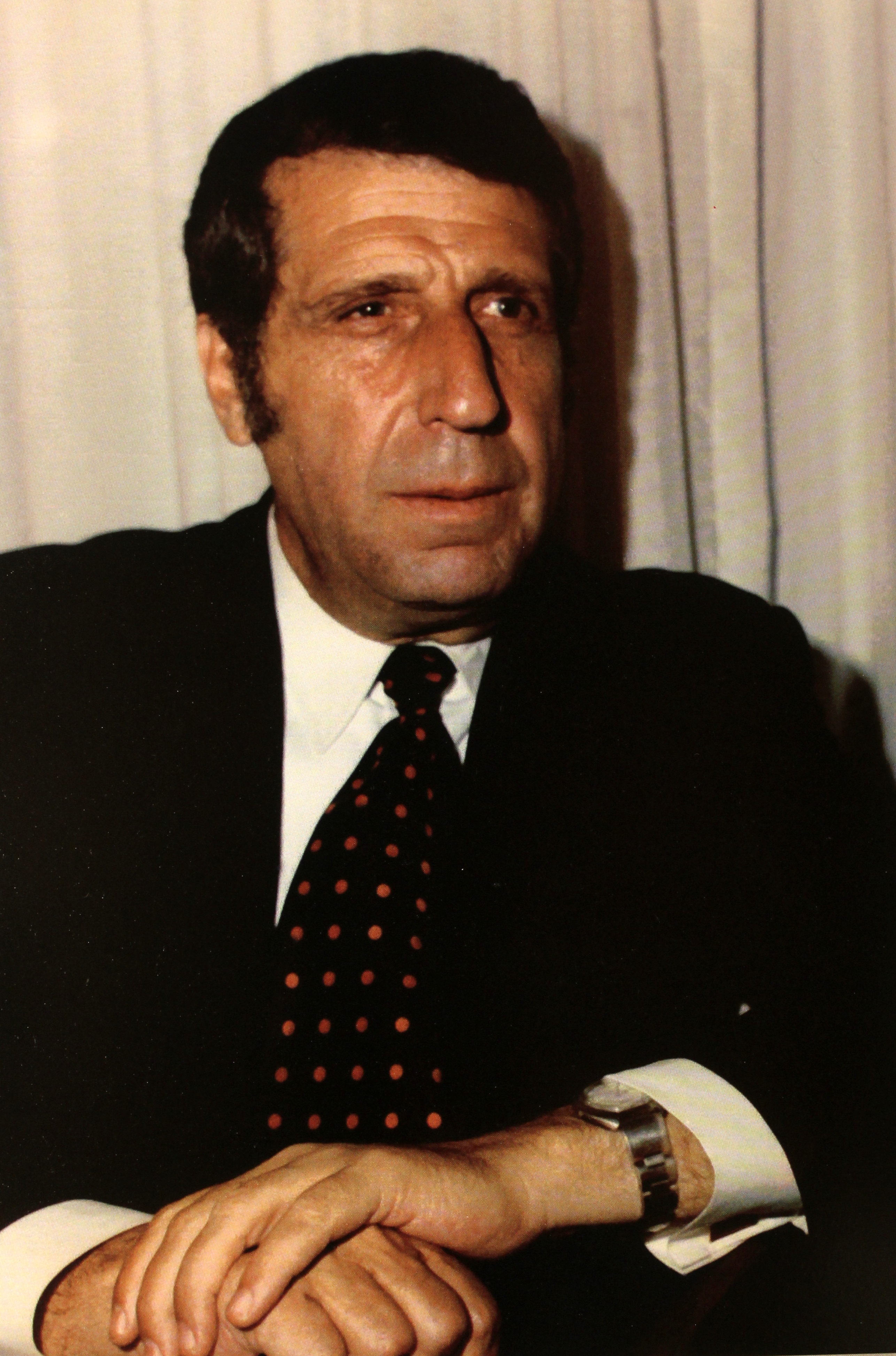 Arno Babajanyan